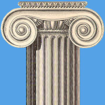 Symbol of architecture - Ionic capital